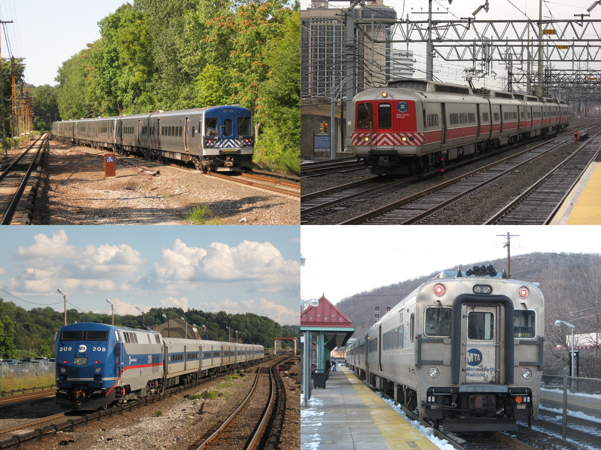 Sampler of MTA Metro-North equipment, MTA Metro-North East of Hudson electric and diesel, Connecticut Commuter Rail diesel, and West of Hudson. Top left: Train 645 northbound leaves White Plains. Top right: Train 1567 southbound enters Stamford. Bottom left: Train #872 leaves Croton-Harmon southbound. Bottom right: Metro-North equipment in service for NJ Transit on Train #1728.